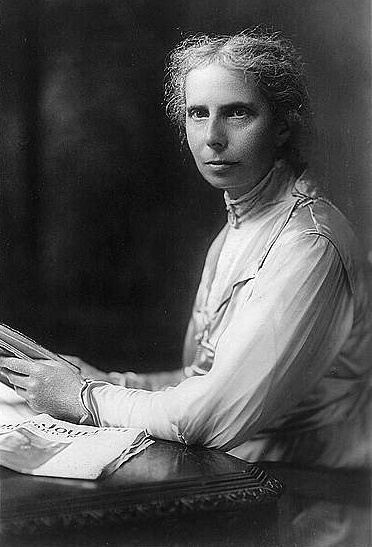 Portrait of Alice Stone Blackwell (1857-1950)